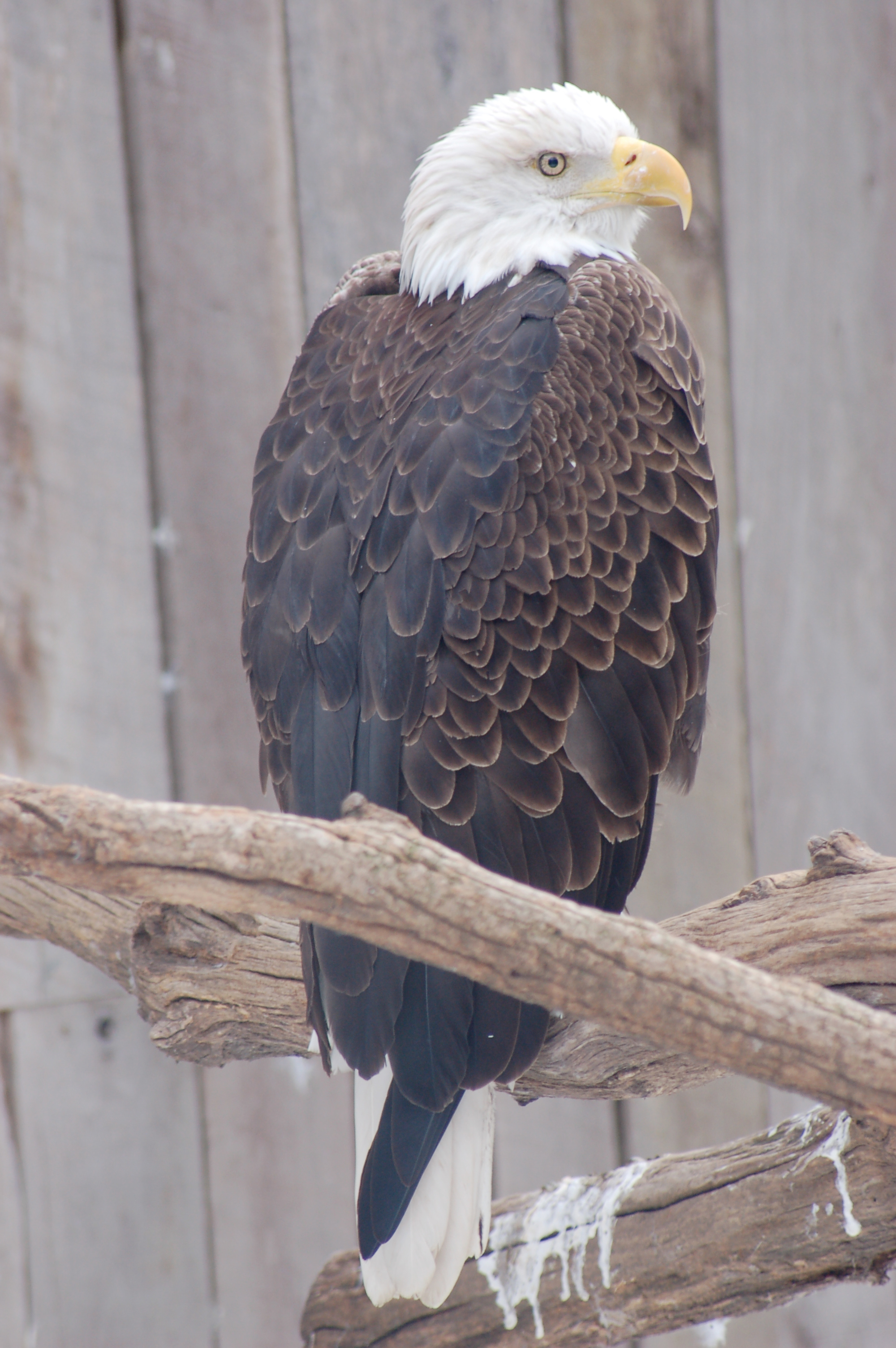 A photograph of Bald Eagleen (Haliaeetus leucocephalus en ). Photo taken at the National Aviary.